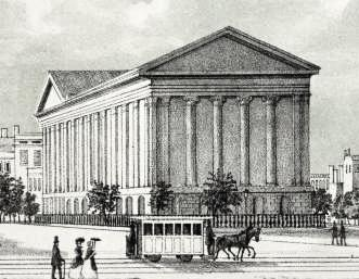 Astor Place Theatre (Astor Opera House) with surroundings, 1850 Image Title: Astor Place Theatre, with surroundings. Views of New-York / Henry Hoff, publisher, No. 180 William Street, N.Y. Creator: Hoff, Henry -- Publisher Additional Name(s): Eno, Amos F., 1836-1915 -- Collector Depicted Date: 1850 Specific Material Type: prints Item Physical Description: 1 print : lithograph ; 17.7 x 24.3 cm. Notes: Date depicted from Weitenkampf. Note 2.) Proof blue tint. Note 3.) Title information from final print. Note 4.) On mat with Eno 263A. Standard Reference: Eno ; Eno 264A Source: The Eno collection of New York City views. Location: Stephen A. Schwarzman Building / Print Collection, Miriam and Ira D. Wallach Division of Art, Prints and Photographs Catalog Call Number: MEZN Eno 264A Digital ID: 1659137 Record ID: 1788333 Digital Item Published: 12-5-2008; updated 6-25-2010